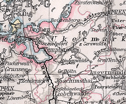 Detail from a map of Brandenburg.